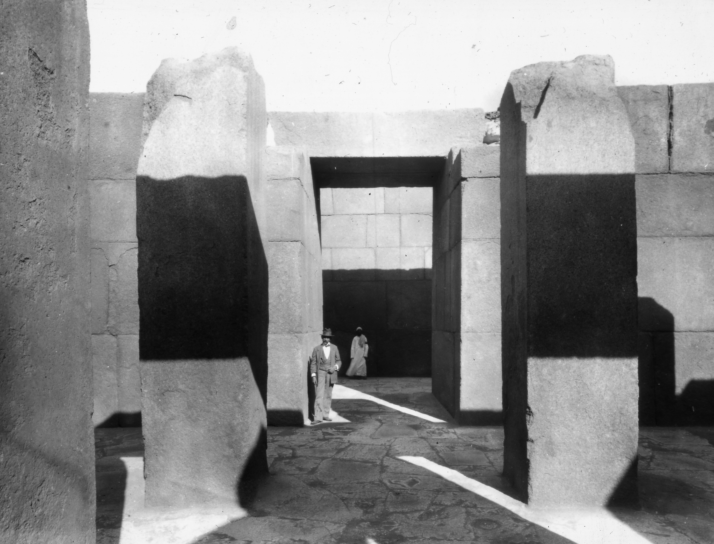 Lantern Slide Collection: Views, Objects: Egypt. Gizeh [selected images]. View 11: Egyptian - Old Kingdom. Granite Temple near Pyramid of Khephren. Gizeh, 4th Dyn., n.d., Made by Joseph Hawkes. New York City. Brooklyn Museum Archives (S10.08 Gizeh, image 9941).